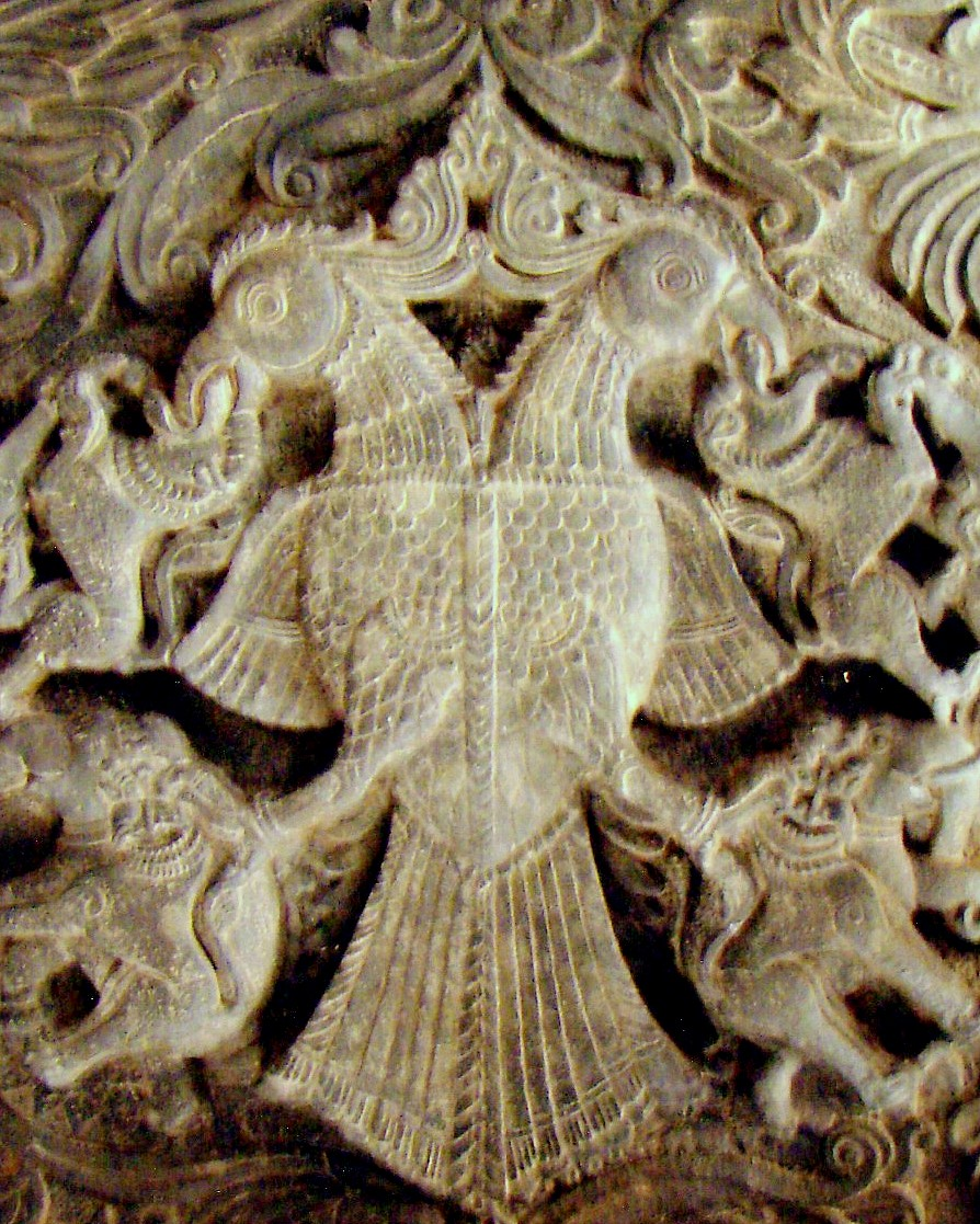 Derivative of work uploaded by user:Dineshkannambadi on wikipedia